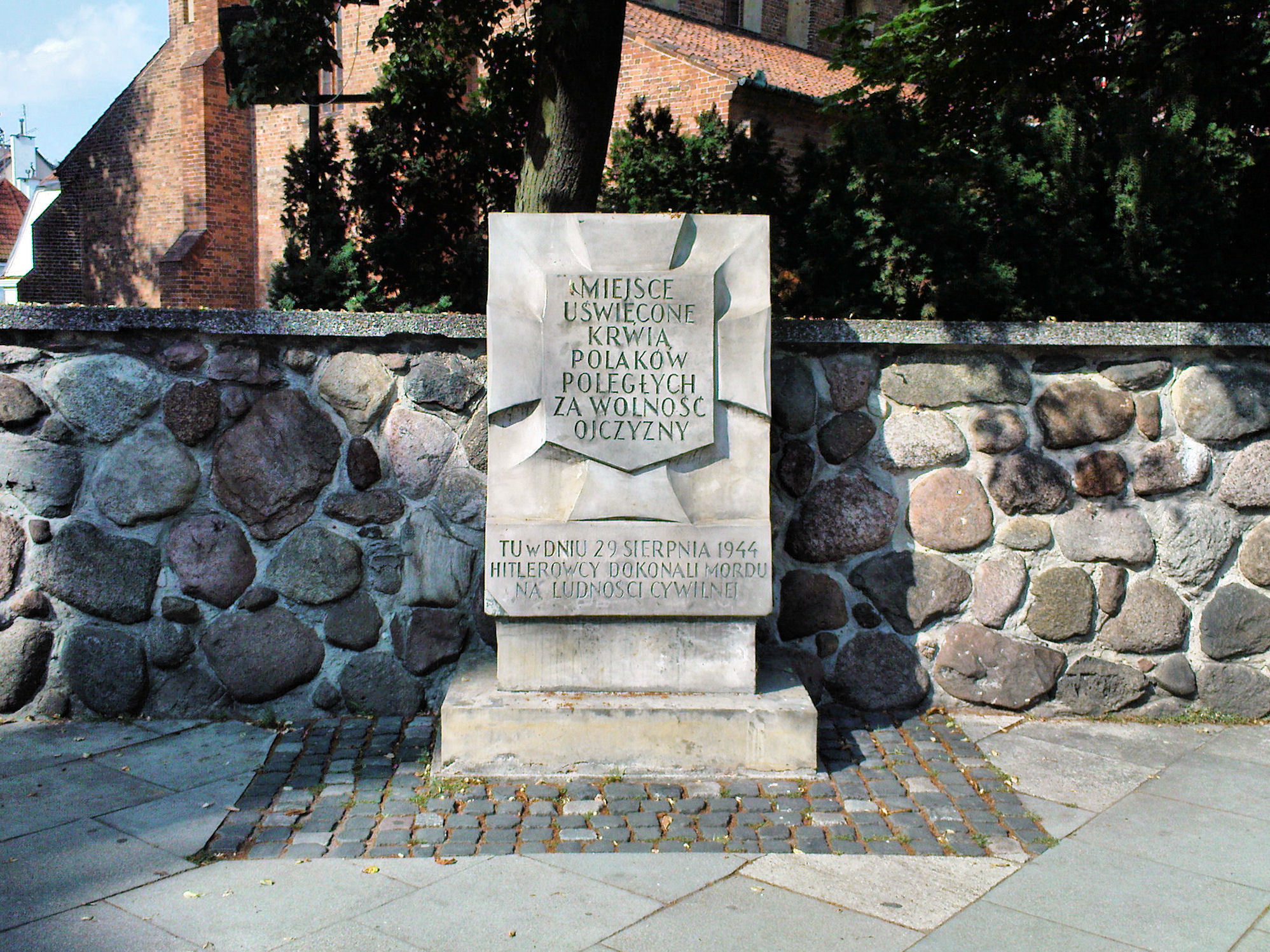 Memorial stone near the Church of the Visitation at Kościelna Street in Warsaw (Warsaw’s New Town), commemorating Polish civilians murdered in this place by German troops during the Warsaw Uprising. Execution took place on 29th August 1944. The majority of victims were the residents of nursing home at neighboring Przyrynek Street.